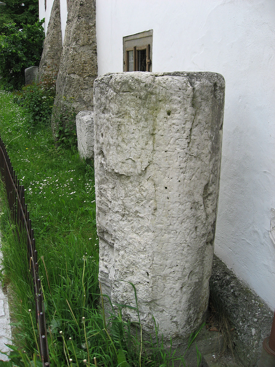 Sights of Vöcklabruck in Upper Austria, here the Roman Milestone that once stood, at Seewalchen am Attersee (Moos), along the Roman via from Iuvavum (Salzburg) to Ovilava (Wels) an is now outside the Heimathaus in the Hinterstadt. CIL III, 05747 = CIL 03, 11842 = CIL 17-04-01, 00084 = CIL 17-04-02, p 125 = ILLPRON 01008 = AE 2006, 00993